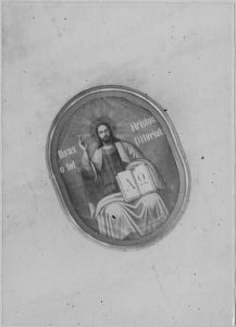 Christ_Pantocrator_from_Sts._Constantine_and_Helen_Church_in_Bitola_by_Costa_Skodreanu